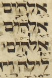 Crop of Hebrew manuscript meant to illustrate Hebrew punctuation paseq